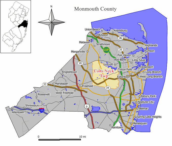 Source: Jim Irwin